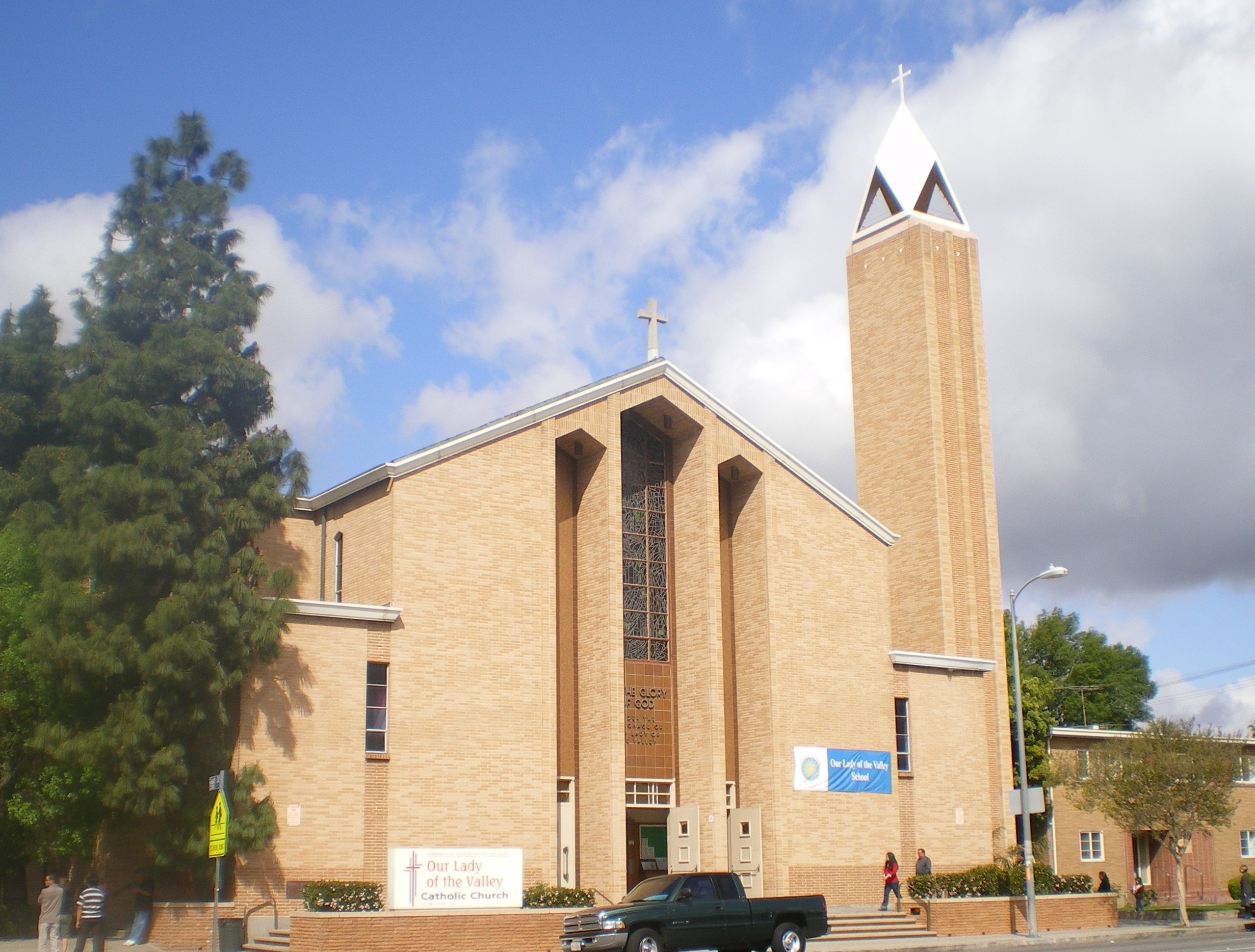 Our Lady of the Valley Catholic Church, Canoga Park Topanga Boulevard, Canoga Park, Los Angeles, California